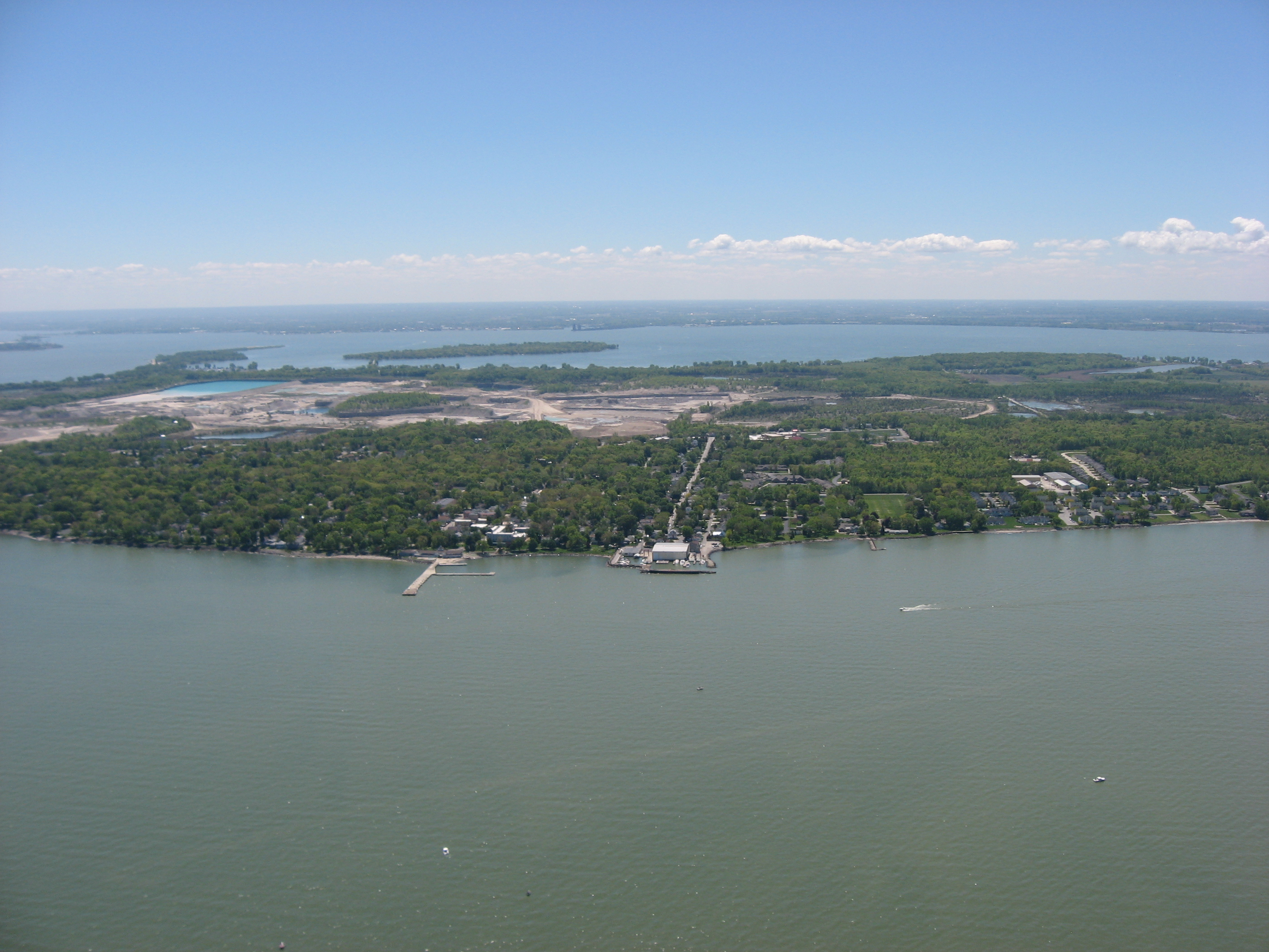 Aerial view of Lakeside, a community in Ottawa County, Ohio, United States between Marblehead and Port Clinton. Johnson's Island is located in Sandusky Bay, in the background on the far side of the Marblehead Peninsula. Picture taken from a Diamond Eclipse light airplane at an altitude of 1,700 feet MSL and a bearing of approximately 173º.